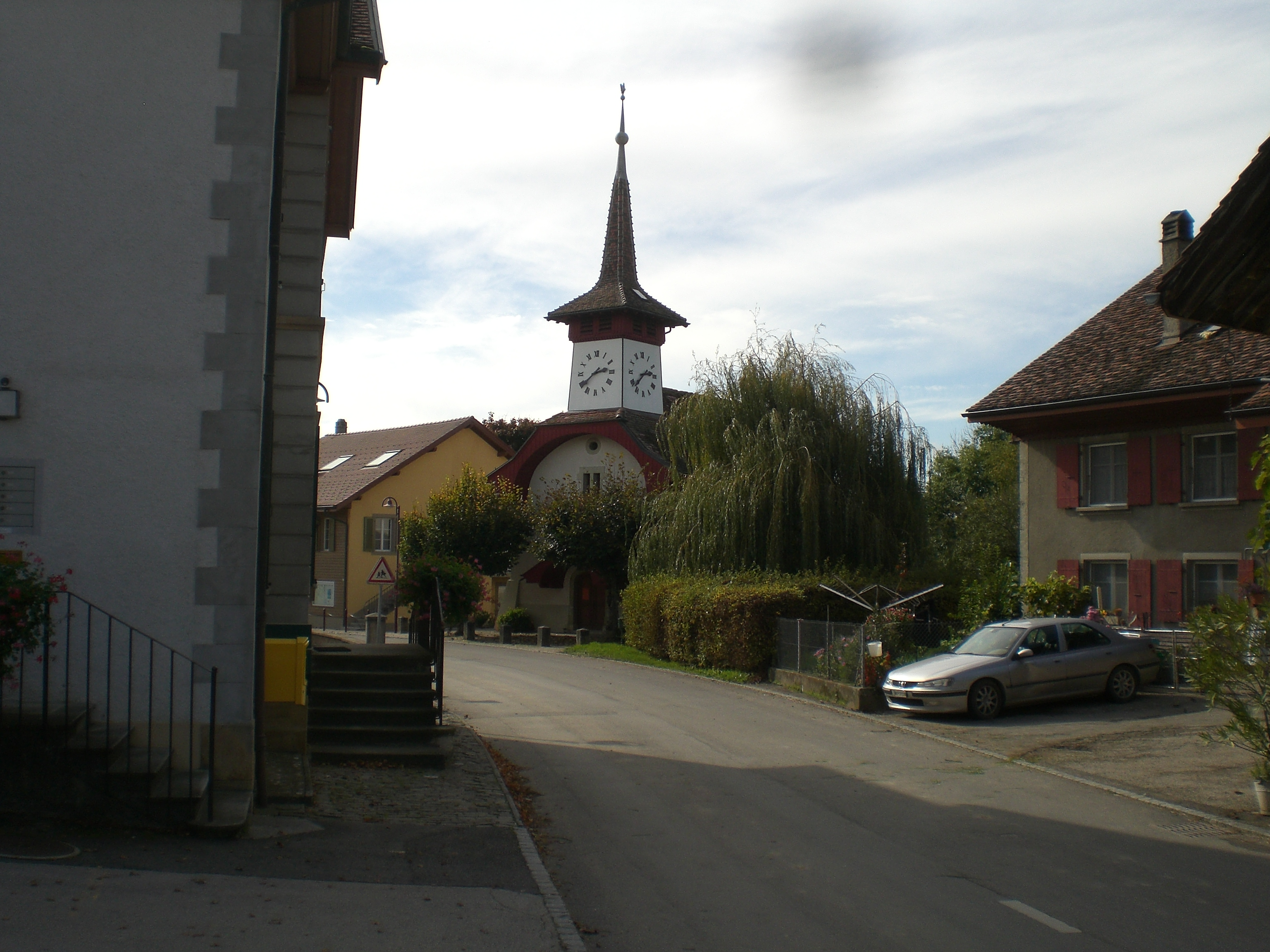 Church and village of Rueyres, canton of Vaud, Switzerland